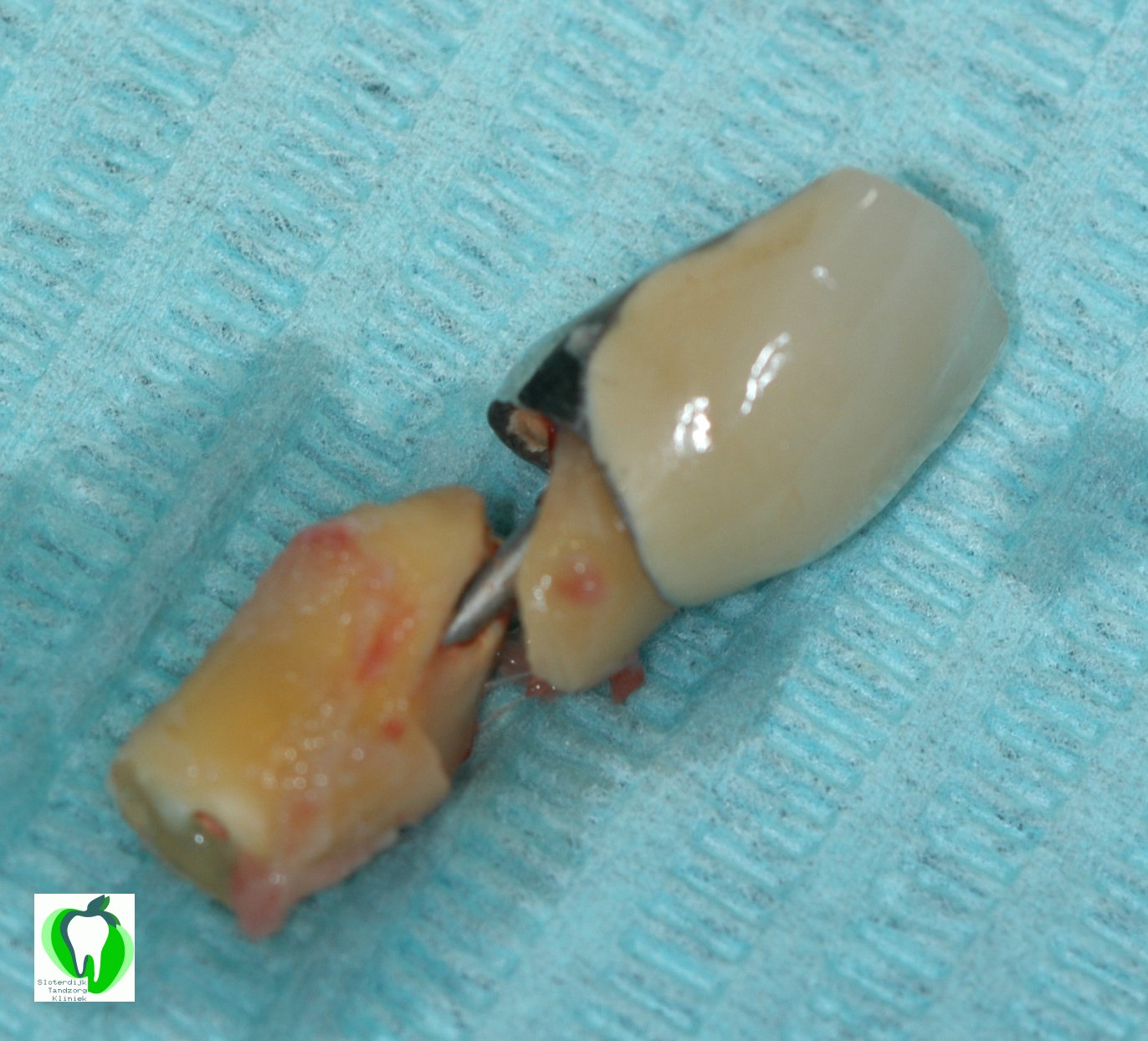 Root fracture, visible after surgical extraction